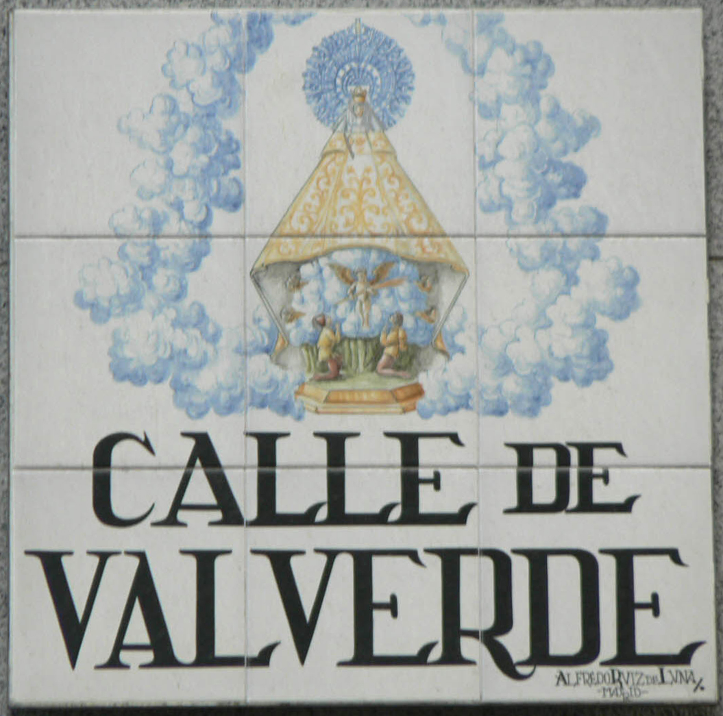 Sign of Calle de Valverde (street, Centro district) in Madrid (Spain).